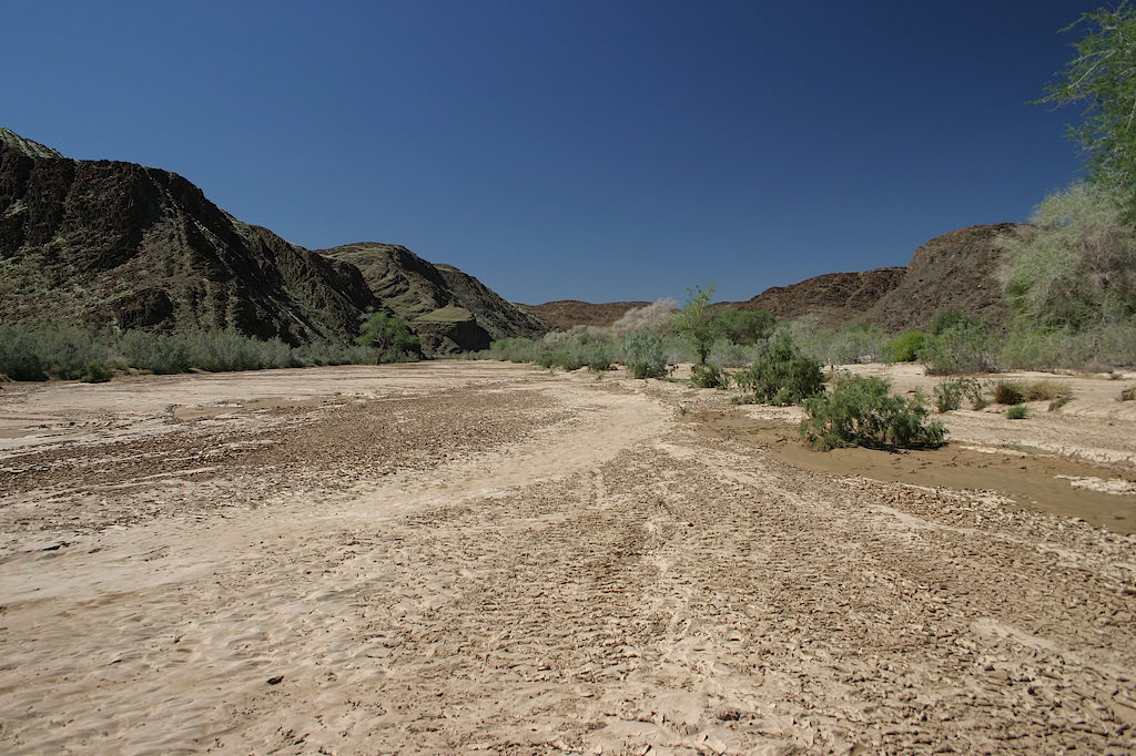 Dry Ugab Rivier bed near Brandberg Wes